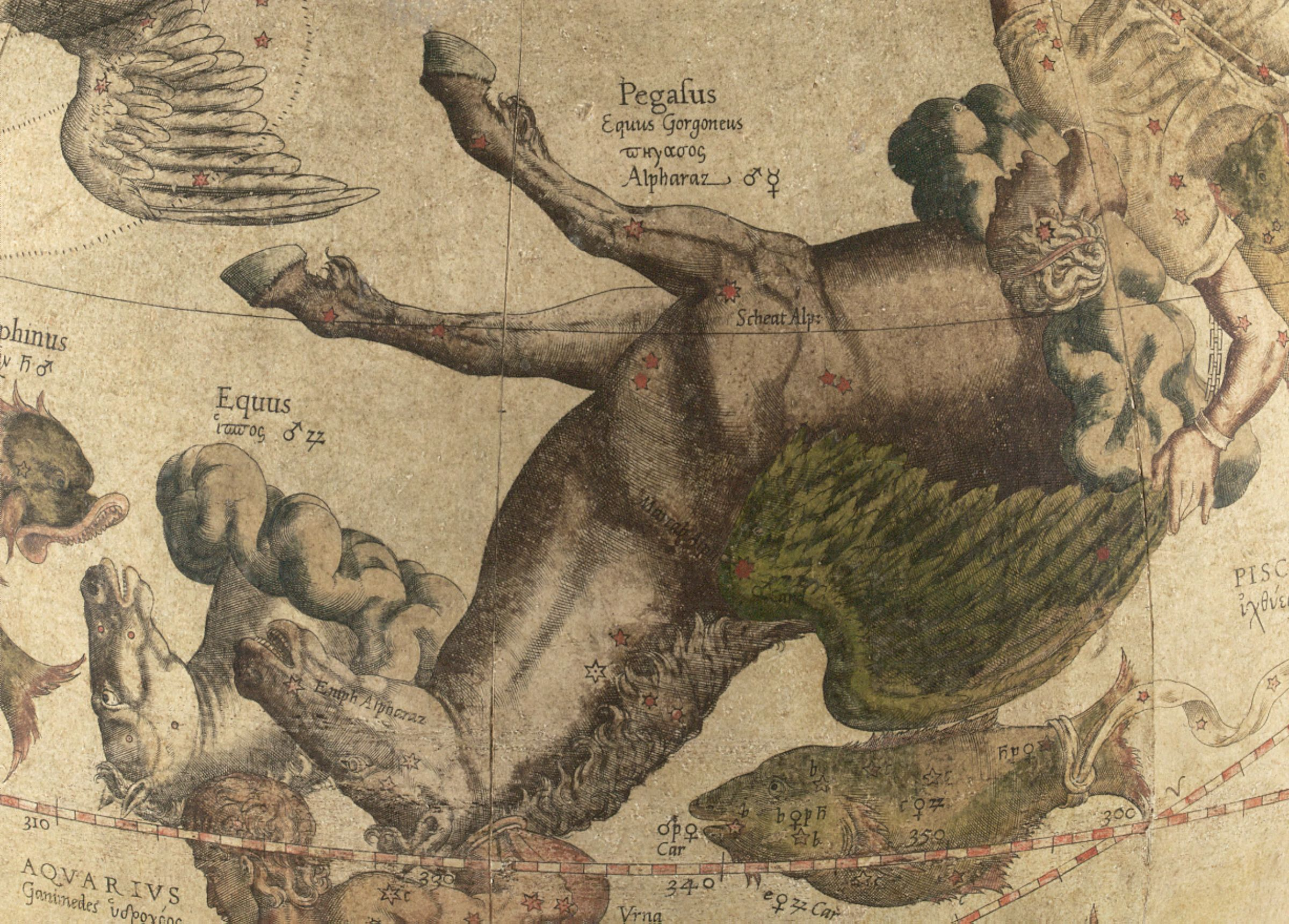 Pegasus and Equuleus constellations from the Mercator celestial globe.